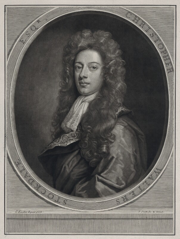 Portrait of British Politician Christopher Stockdale (Bilton Hall Yorkshire) by John Smith later published by Sir Godfrey Kneller, Bt